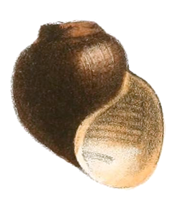 Drawing of apertural view of the shell of Afropomus balanoidea